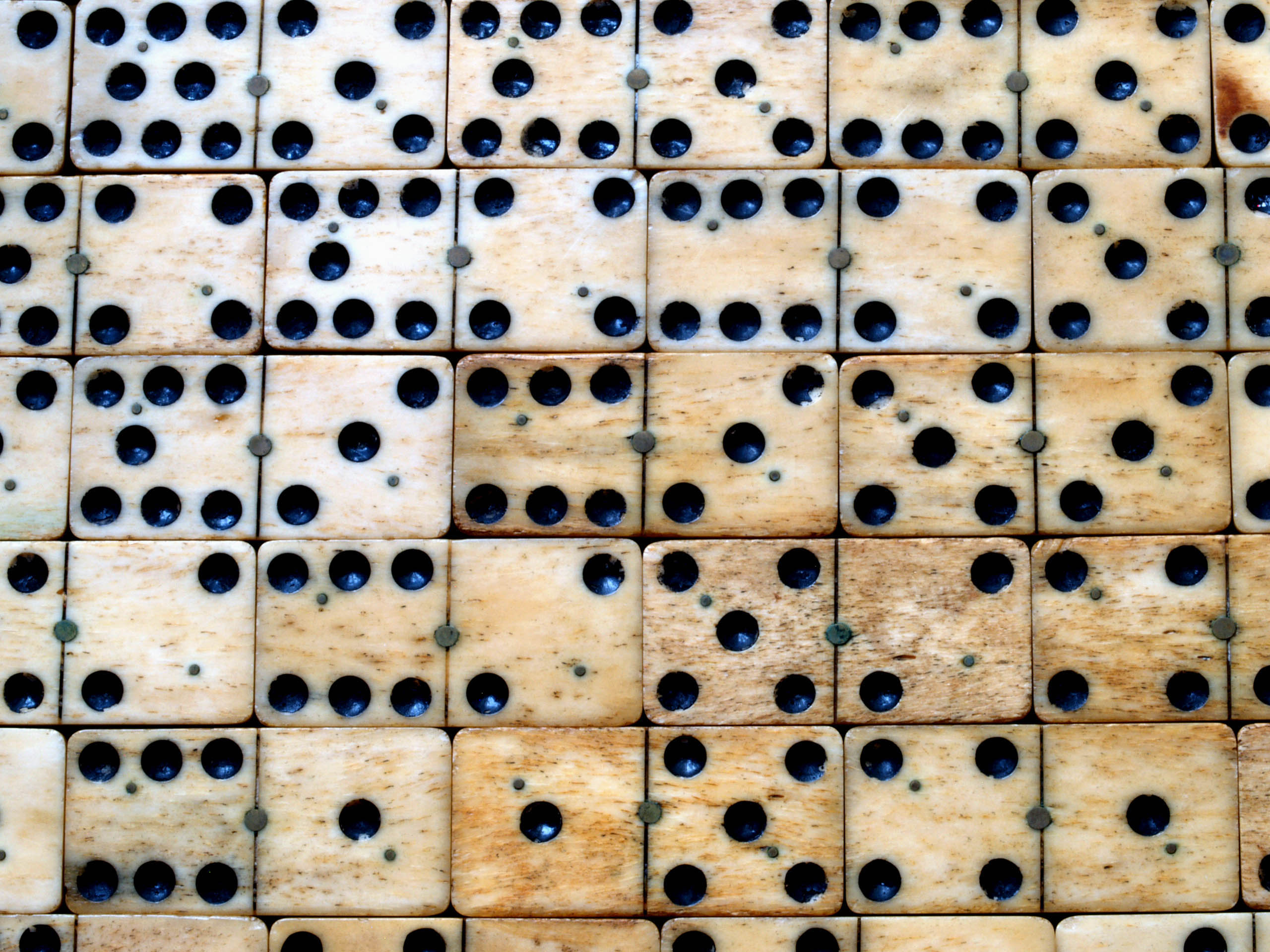 Domino tiles made out of whale bone.